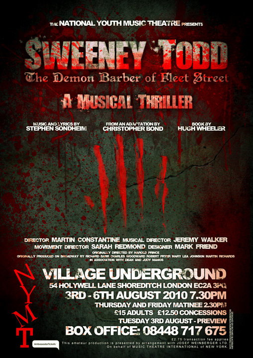 NYMT Sweeney Todd Auditions